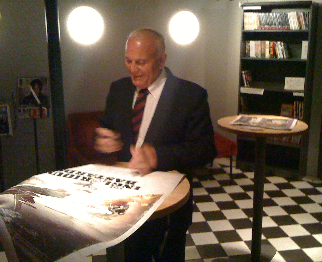 Enzo G. Castellari siging Inglorious Bastards posters at FFF ( after the screening of said movie.